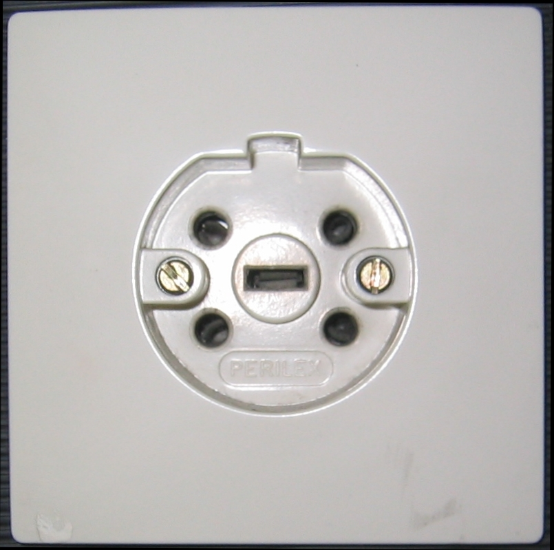 Obsolete German 16 amp-type 3-phase-power outlet according to DIN 49445. Trademark is Perilex